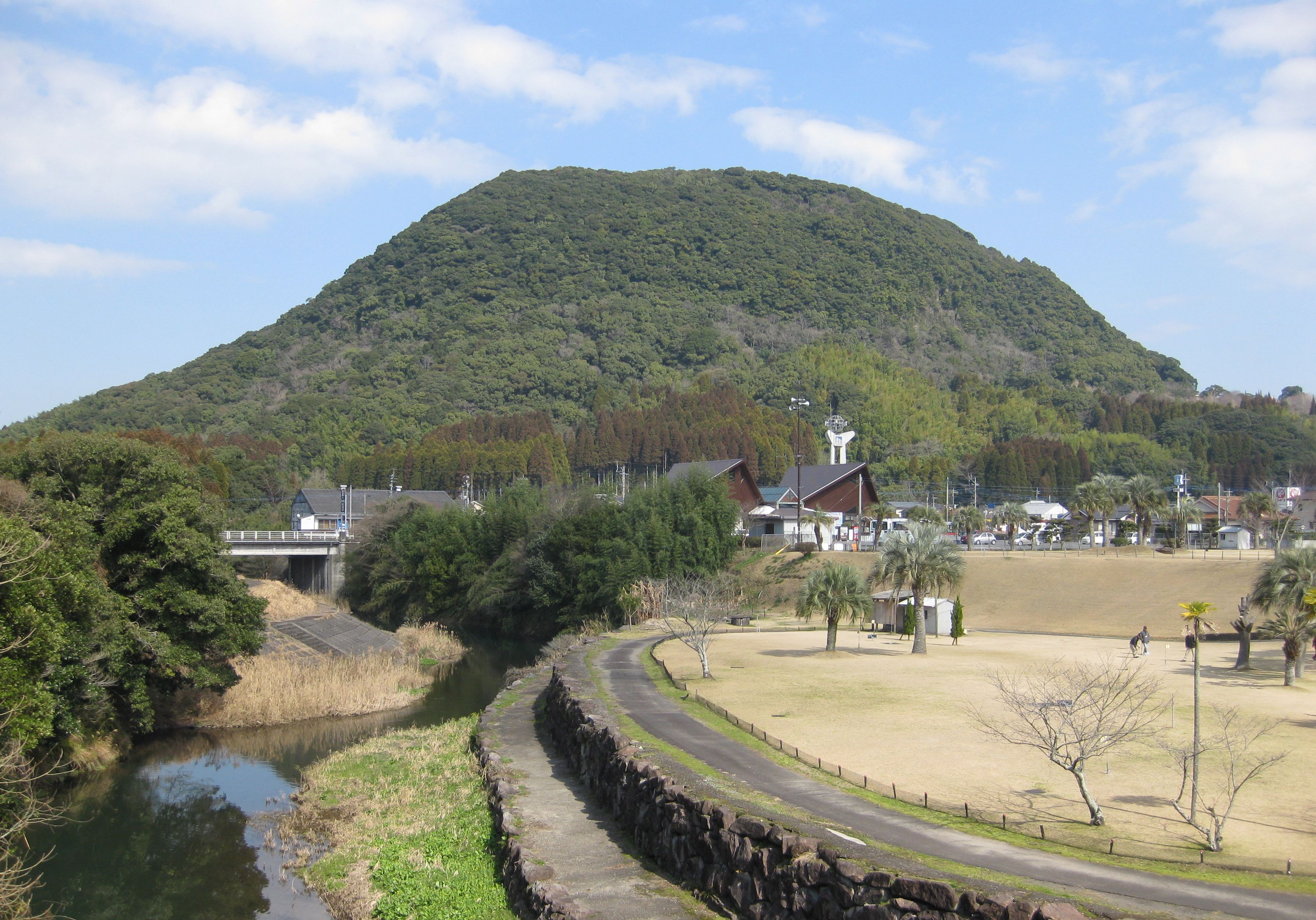 Mt. Maruyama in Kagoshima, Japan